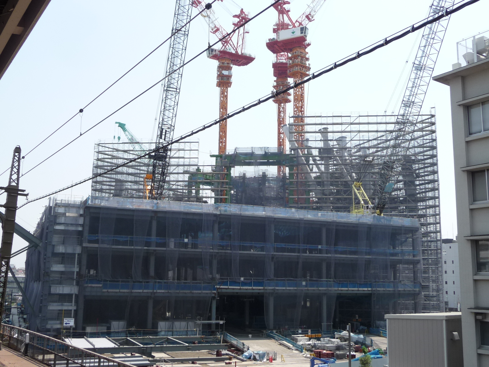 Tokyo Sky Tree, shot from platform of Narihirabashi Station, Tobu Railway on 10 May 2009, 10 months after construction begins on 14 July 2008.